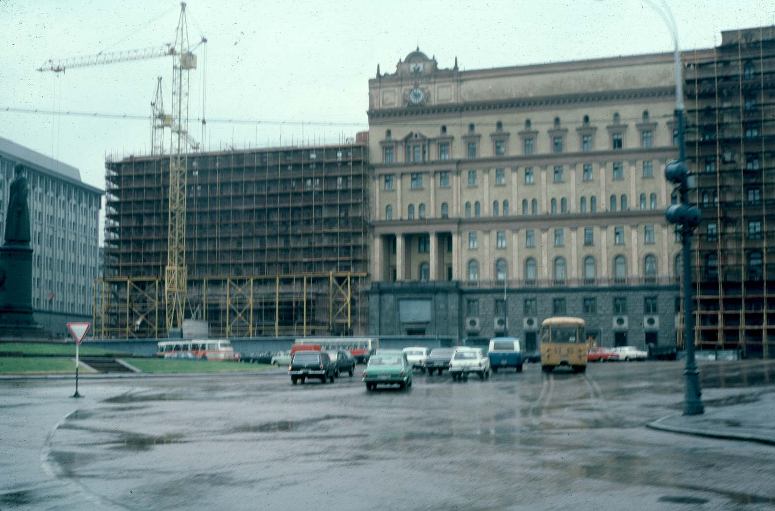 View of Lubyanka (KGB headquarters) in 1983, while it was undergoing renovation and the third storey was added.to the left half